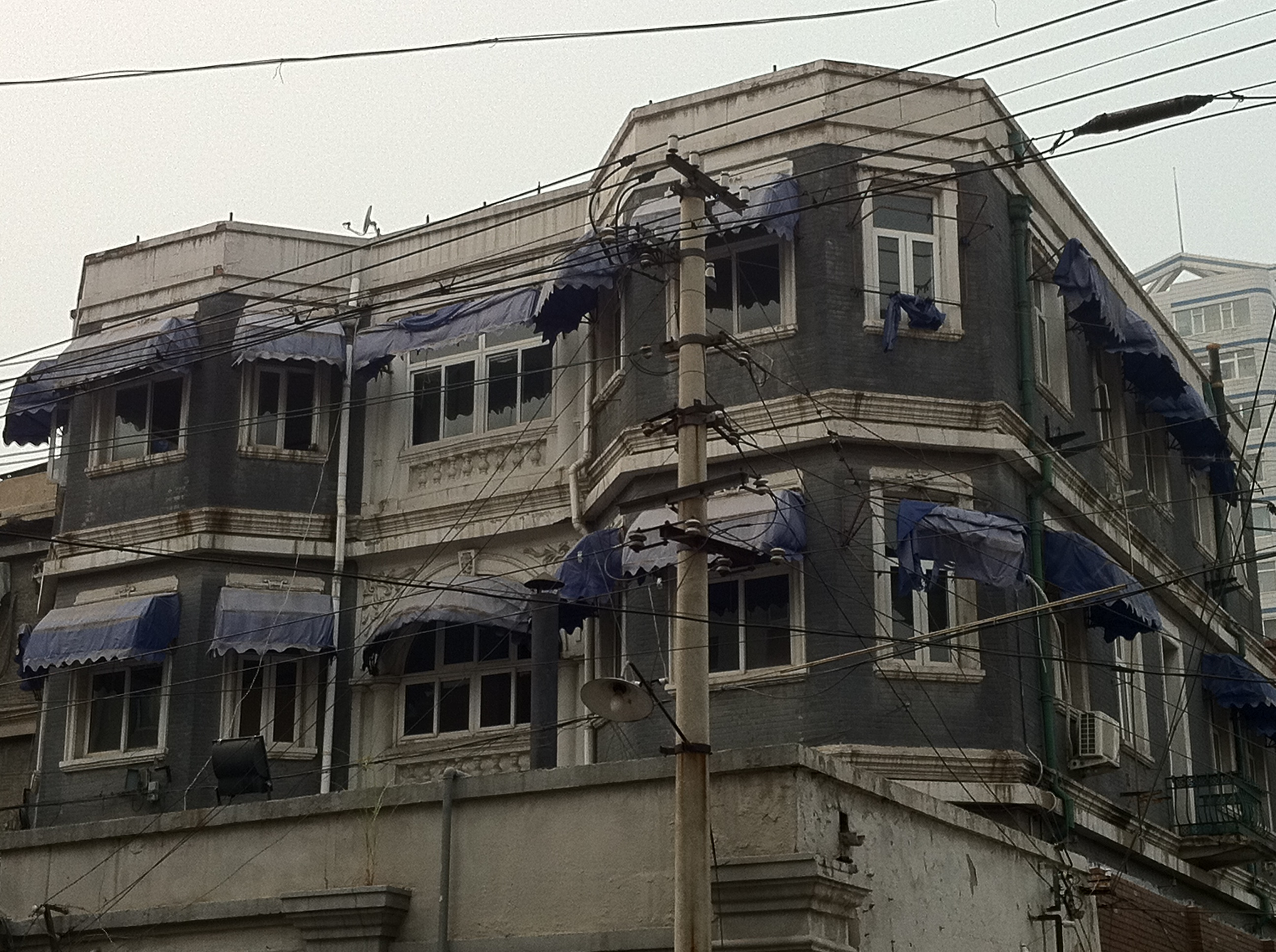 The Former Residence of Wang Yitang (1877–1948) in Shenyang Dao No. 66, Heping District, Tianjin